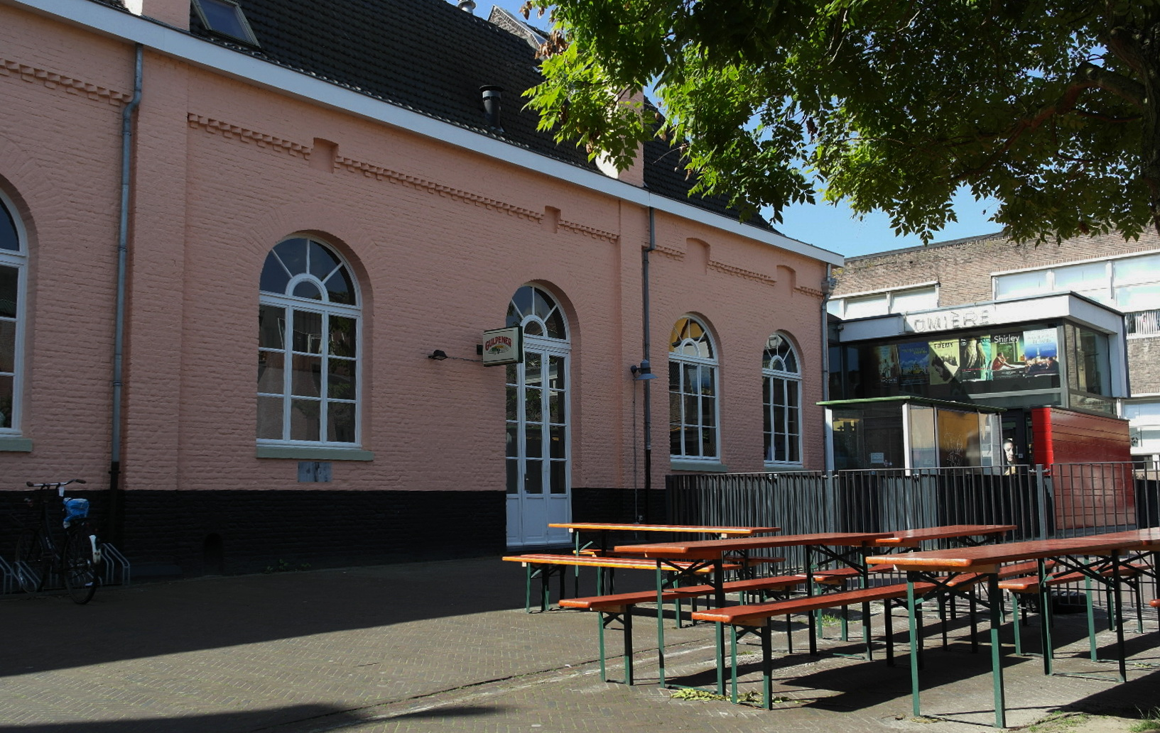 Maastricht, the Netherlands. View of the current (2014) building of Lumière Cinema. The cinema is scheduled to move in 2015 or 2016.